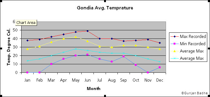 This file contains average minimum and maximum temprature. It also shows the max and minimum temprature recorded till date